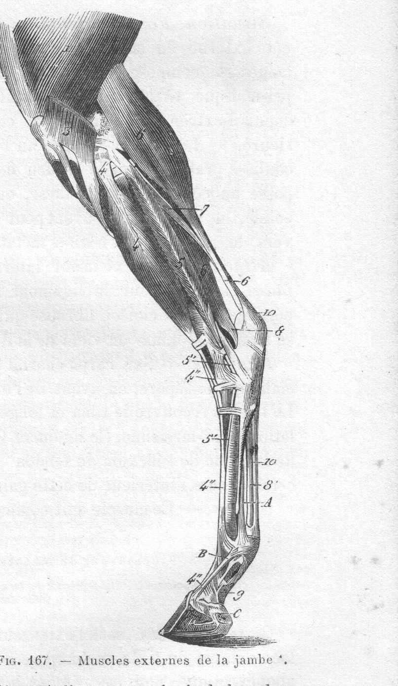 The external muscles of the hindleg of the horse (Equus caballus).